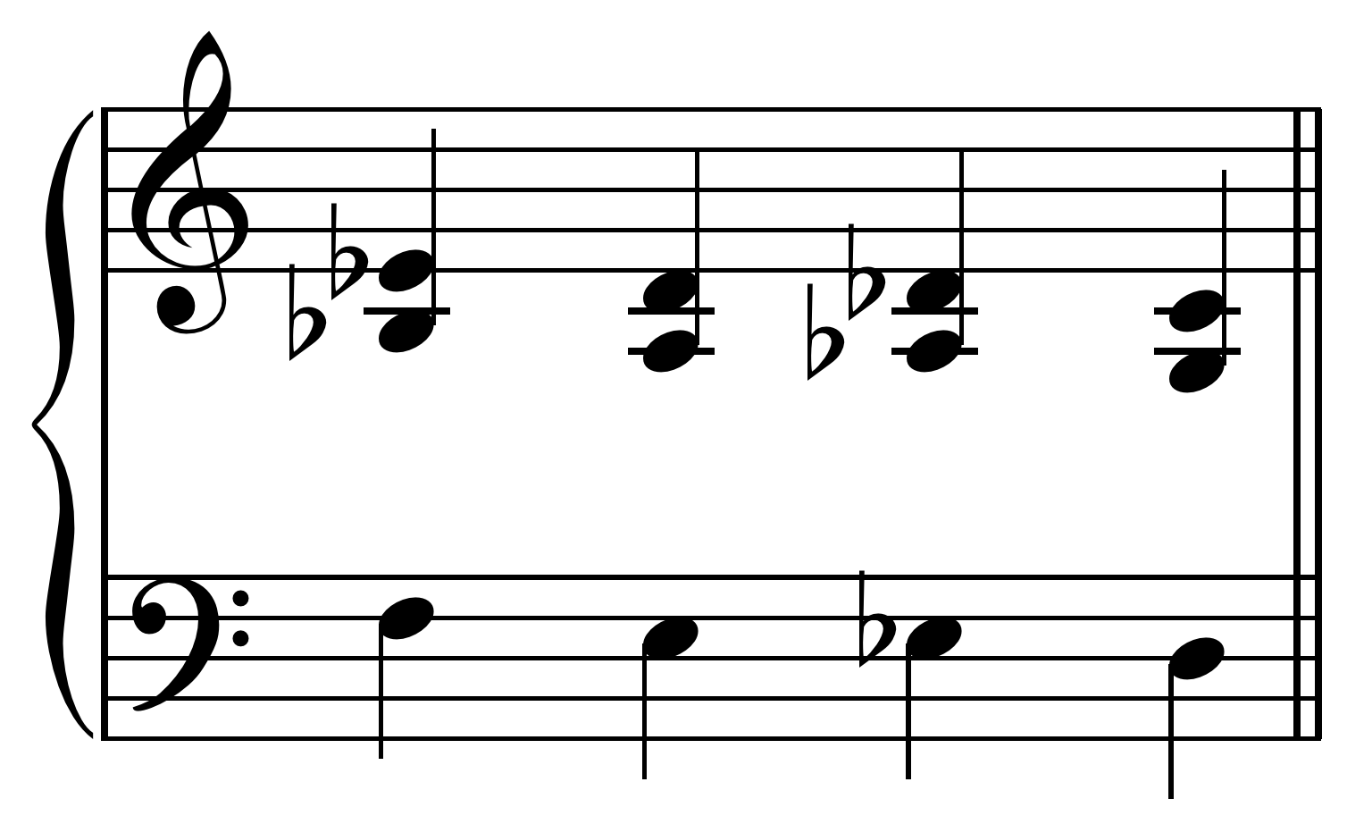 Quartal chords descending by semitone. Ric Zimmerman, free license.